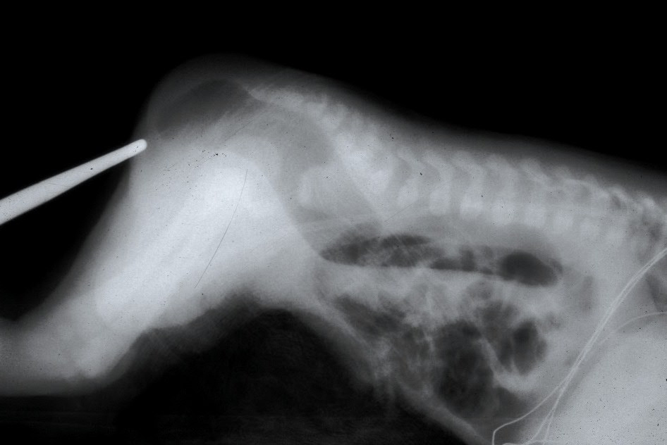 X-ray in a patient with anal atresia; cross-table lateral film with the baby in prone position.